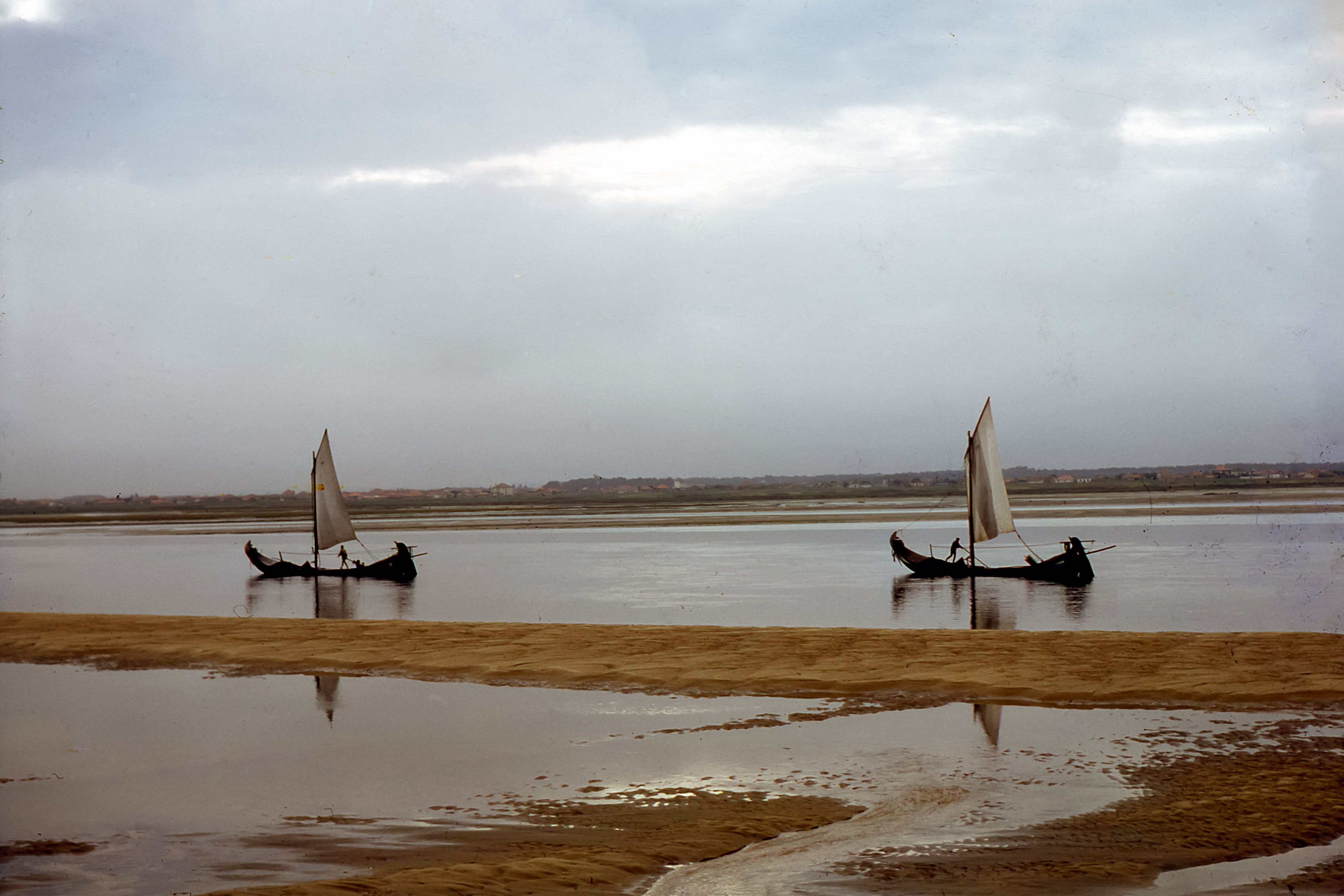 Moliceiros flat-bottomed barges used on the Laguna.